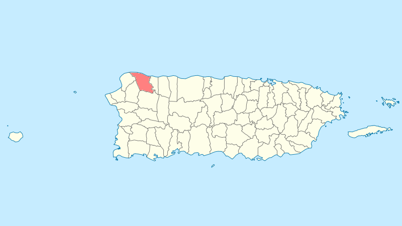 Municipal locator of Puerto Rico